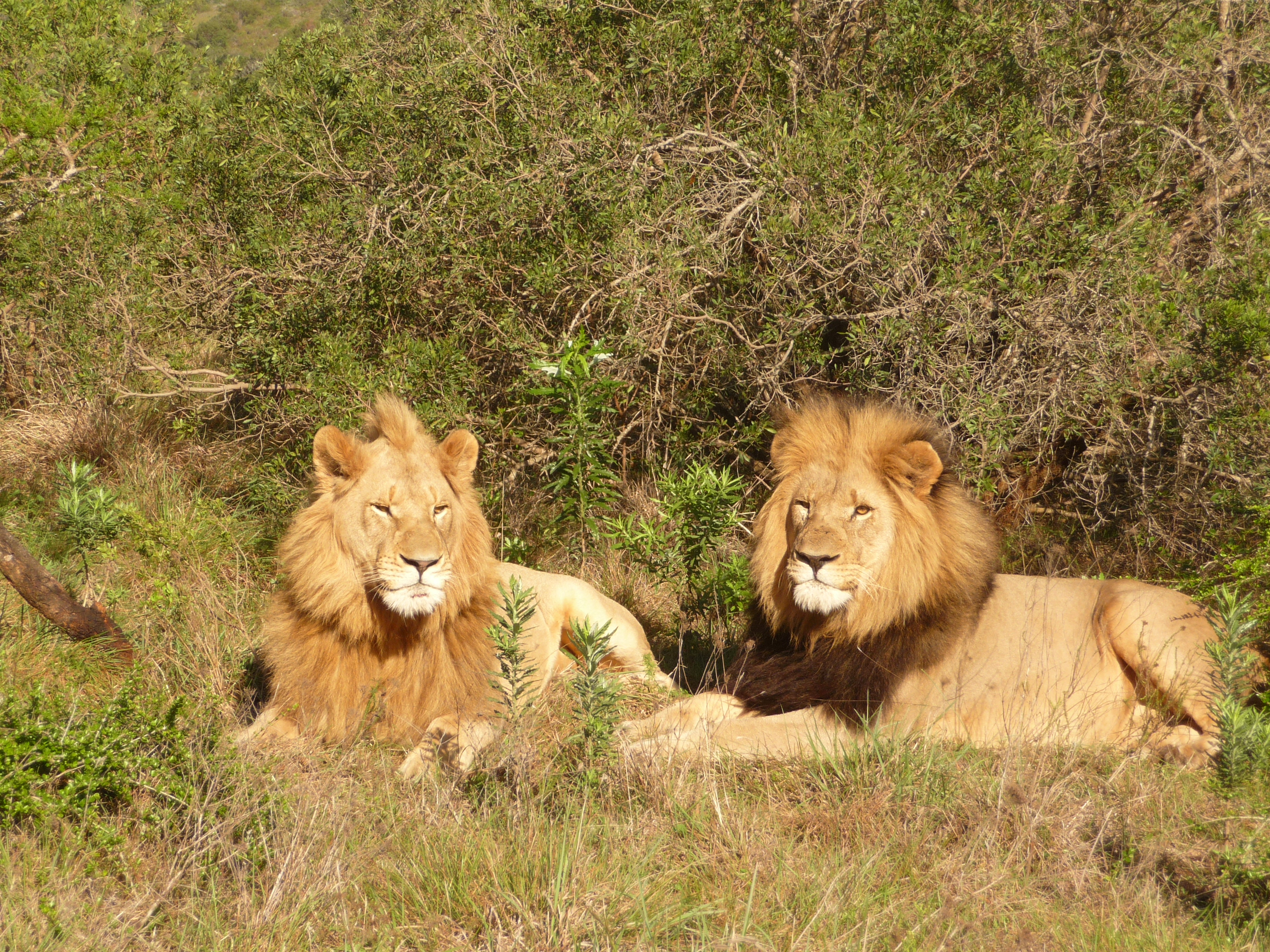 Lions